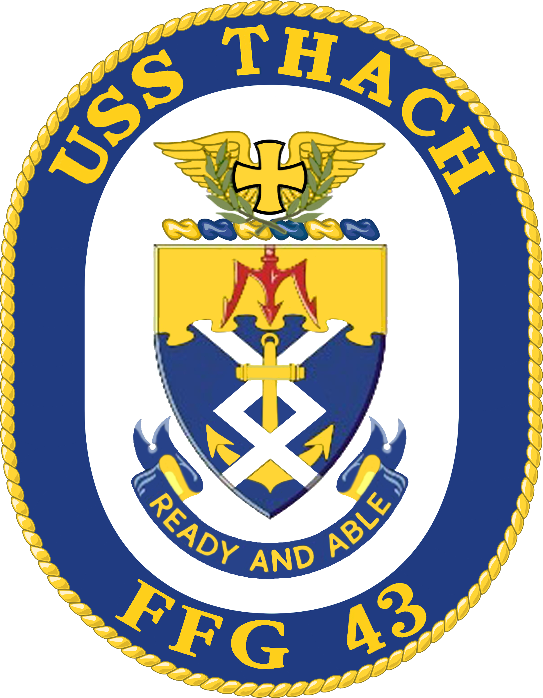 Emblem of the USS Thach FFG-43